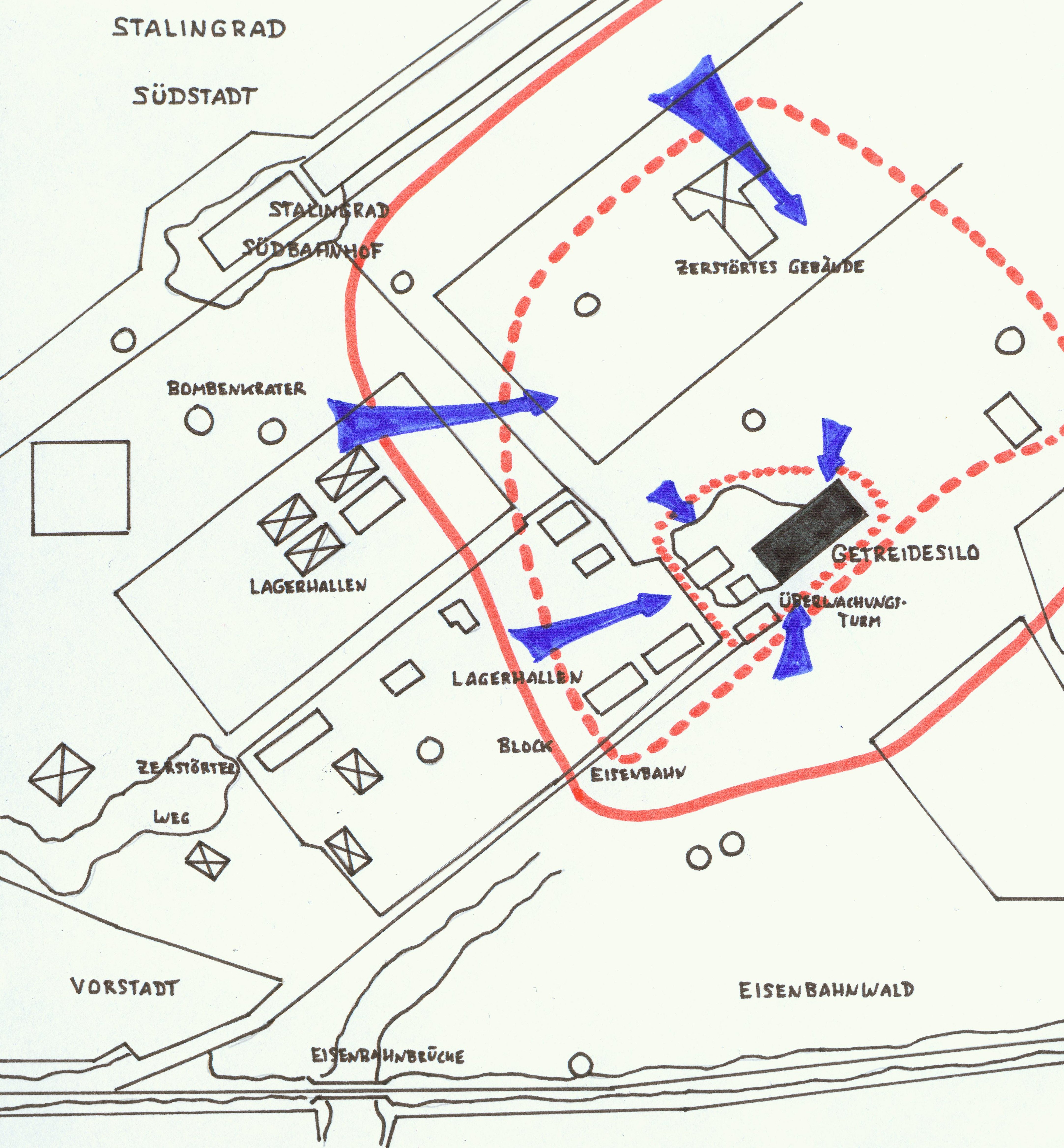 skratch drawing-out according to Russian map